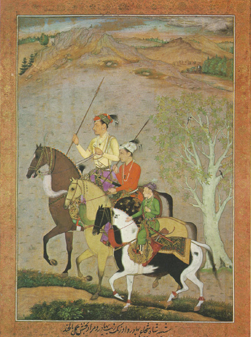 Shuja, Aurangzeb, and Murad Bakhsh: Mughal Miniature, 38.7 x 26 cm. c. 1637. Attributed to Balchand. Collection: Victoria and Albert Museum, UK.